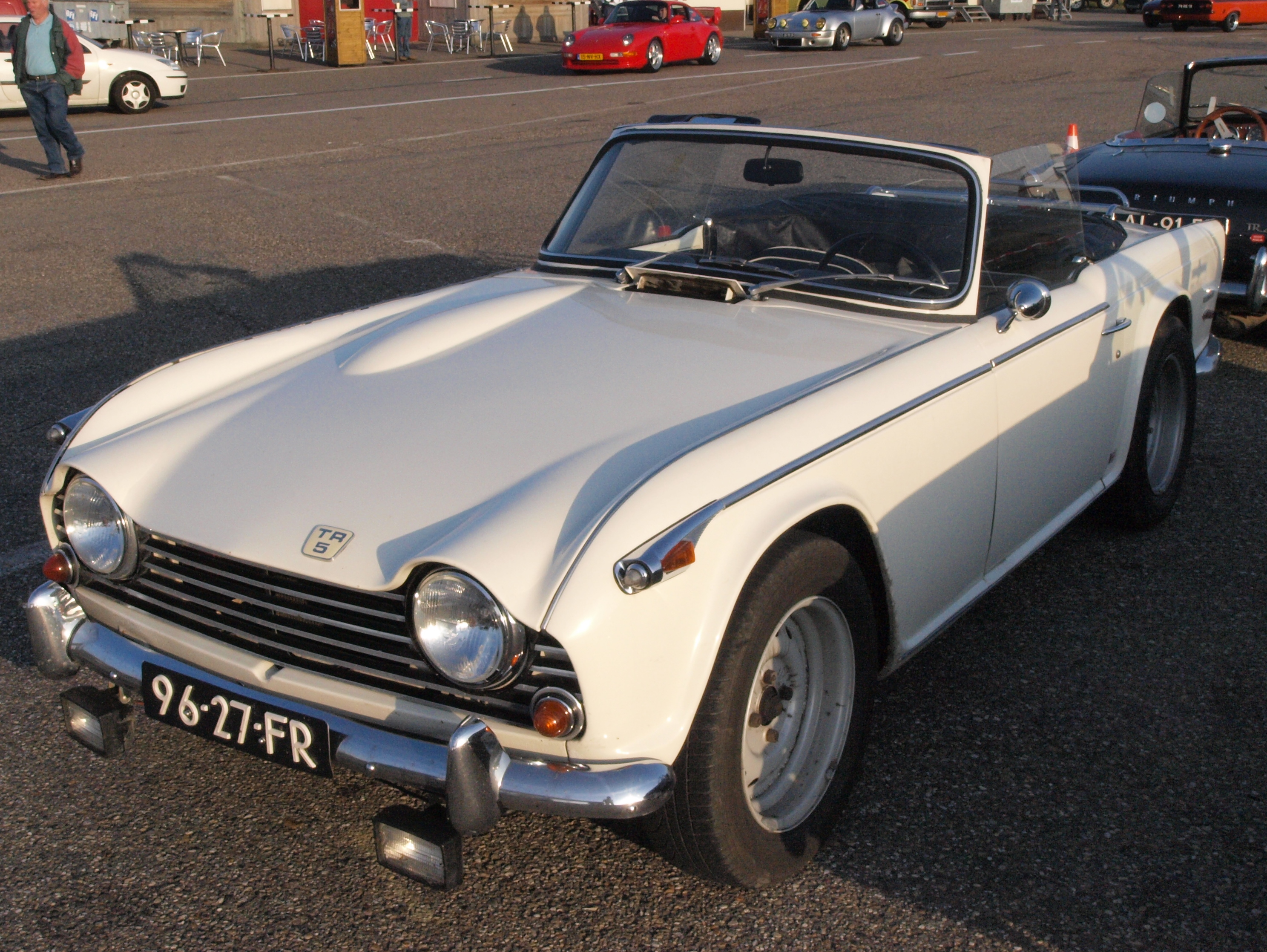 Photographed at the Nationaal Oldtimer Festival Zandvoort 2009, The Netherlands. OLYMPUS DIGITAL CAMERA